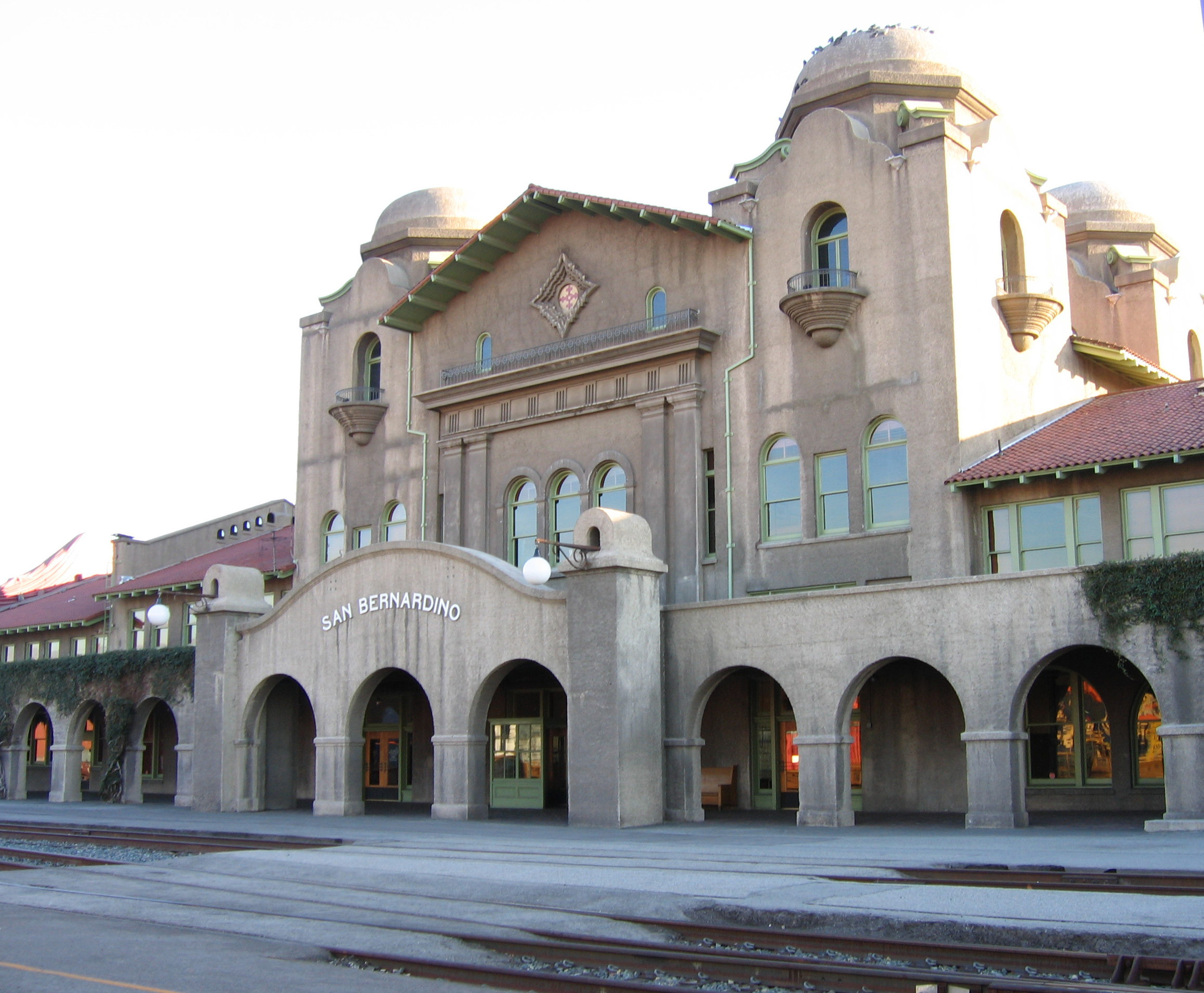 Trackside of San Bernardino Santa Fe Depot. View of Mission Revival Style facade.